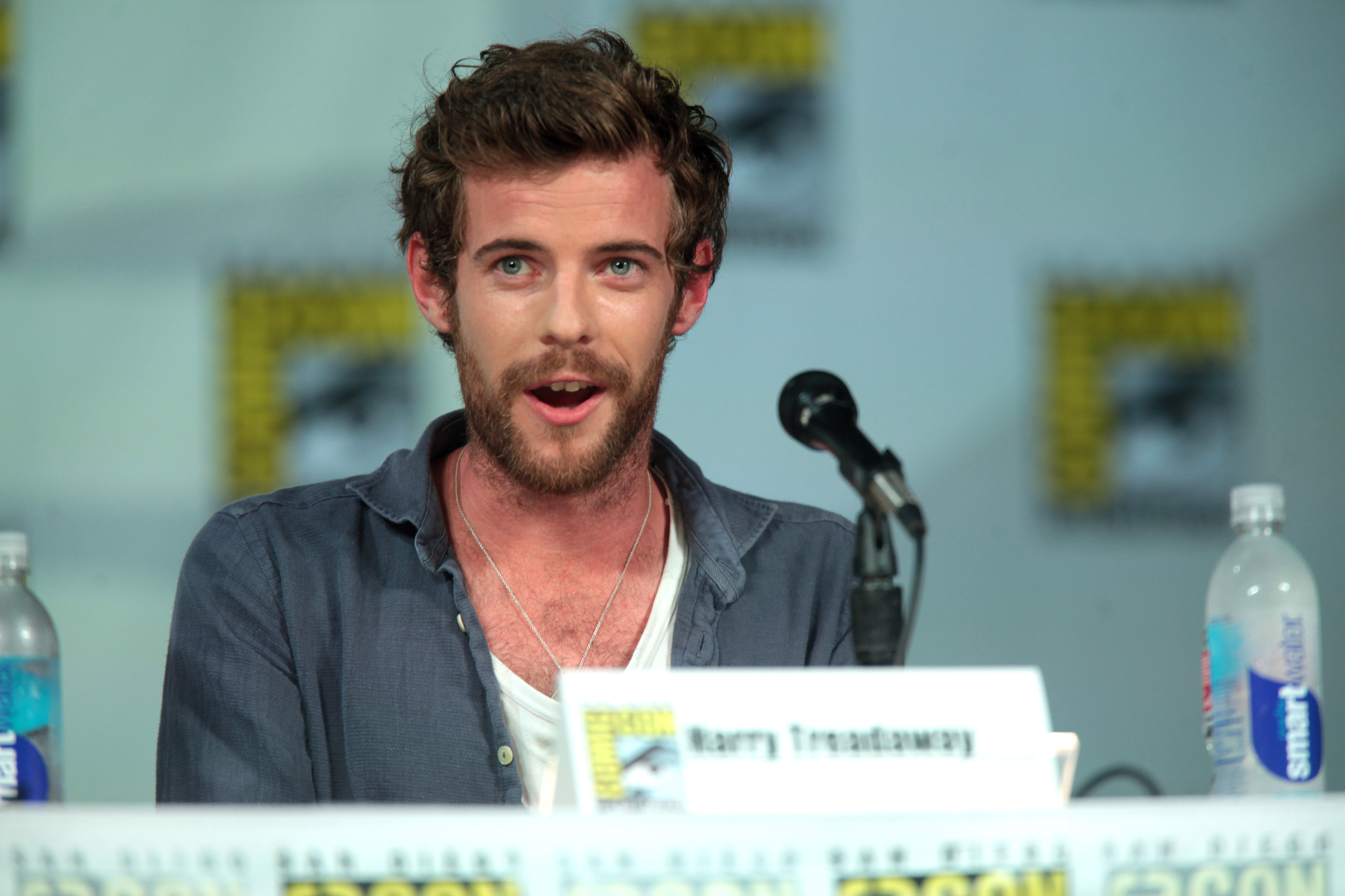 Harry Treadaway speaking at the 2014 San Diego Comic Con International, for "Penny Dreadful", at the San Diego Convention Center in San Diego, California.